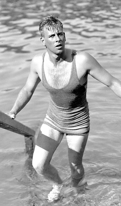 Olympic swimmer Andrew 'Boy' Charlton at Manly Pool, 2 January 1928. Glass Neg 3436 #15S. SMH Picture by STAFF